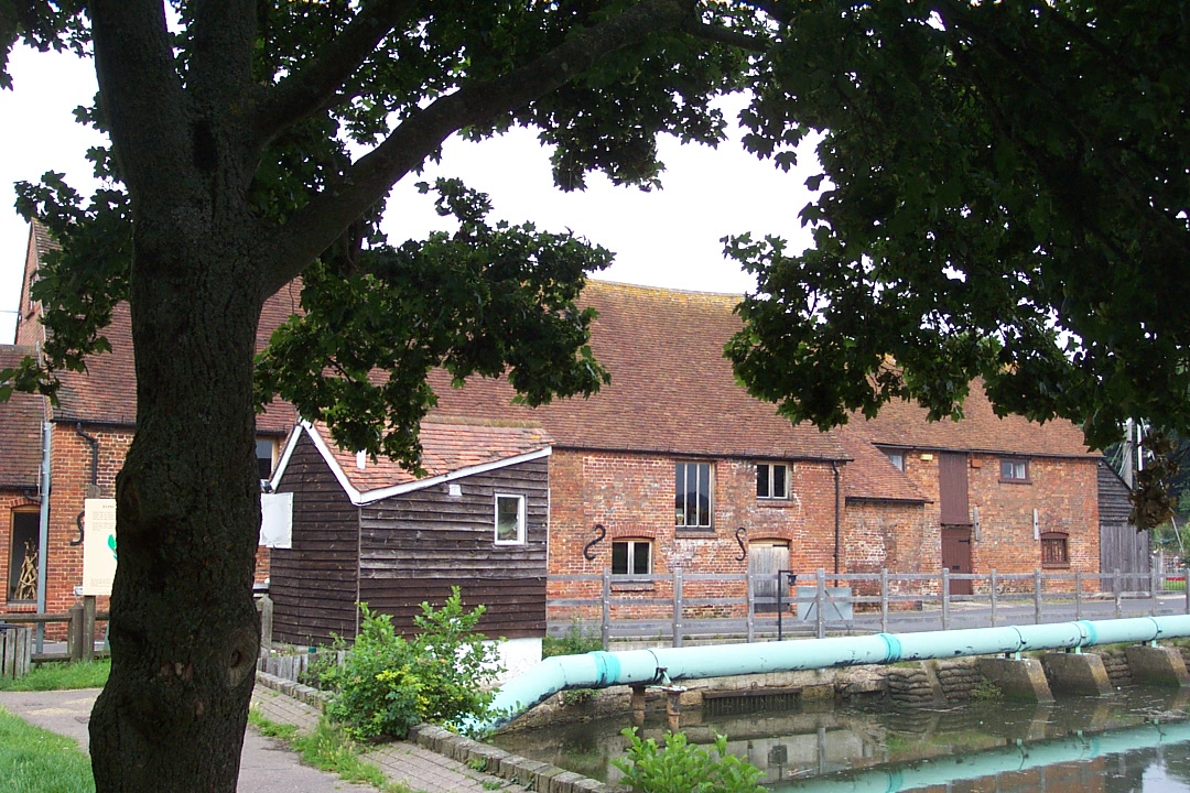 Eling Tide Mill across the causeway, with view of ugly utility pipe in foreground. The wooden structure is the toll keeper's hut